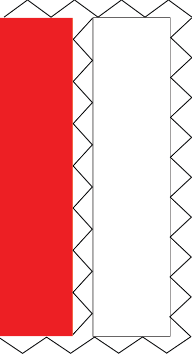 Based on David Nicolle "Armies of the Muslim Conquest" illustrations by Angus McBride. And Martin Hinds "The Banners and Battle Cries of the Arabs at Siffin" Al-Abhath XXIV